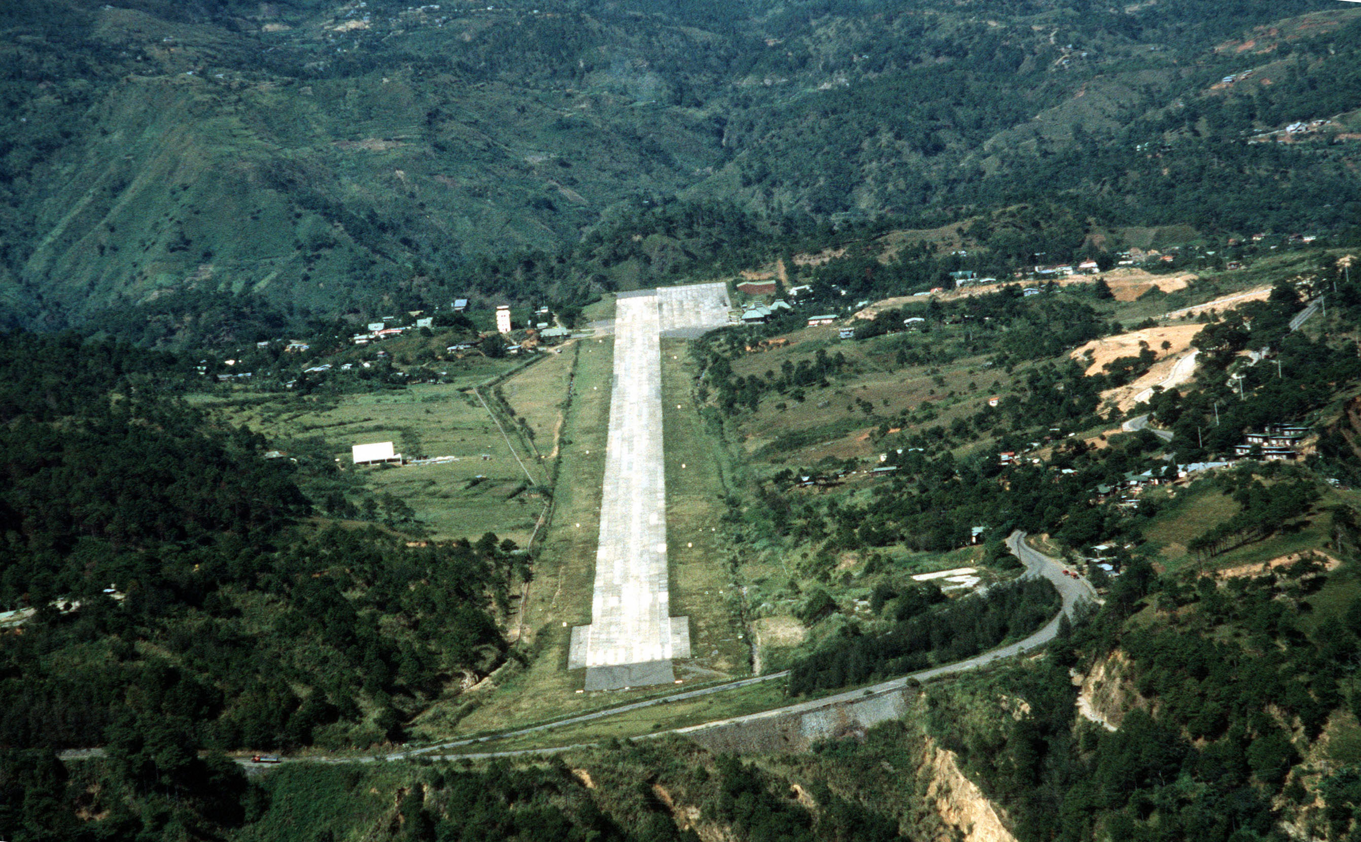 Loakan Airport. An aerial view of the Baguio aircraft.